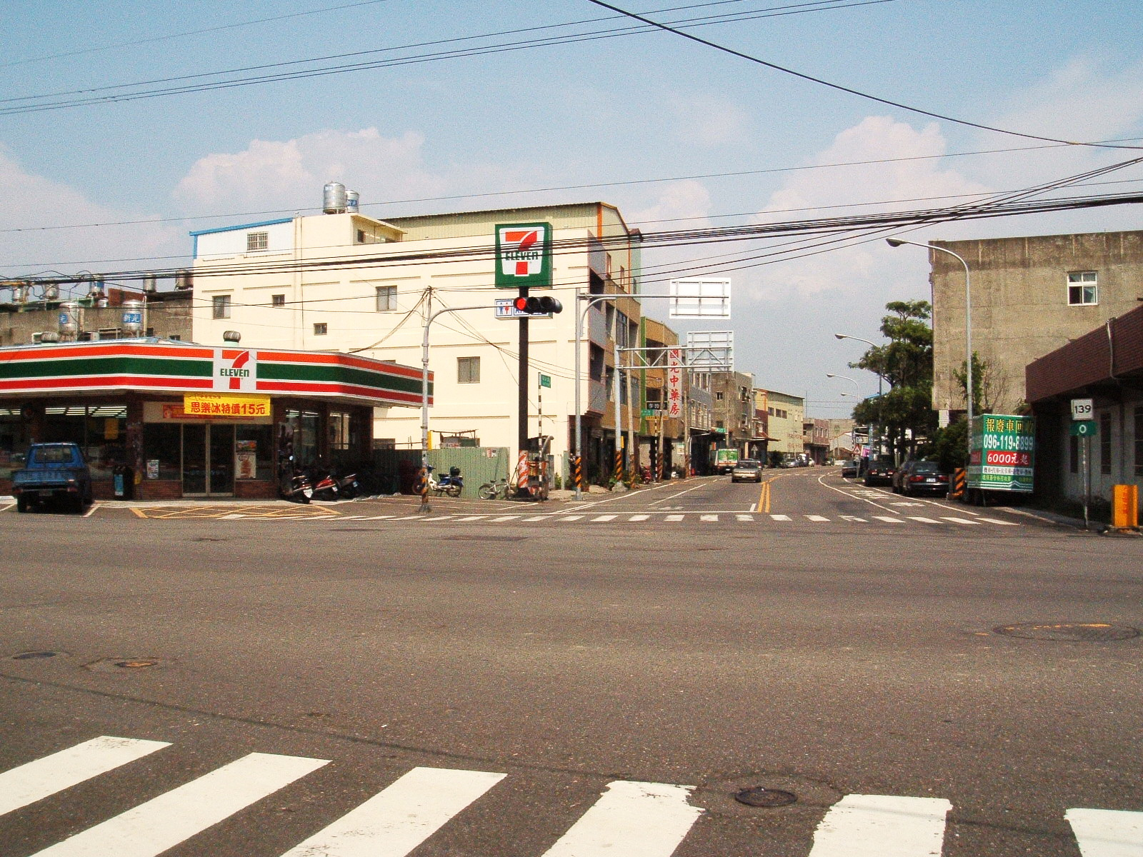 Start of County Highway No.139 in Shengang Township,Changhua County.